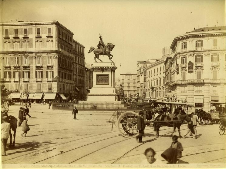 Giorgio Sommer (1834-1914), "Naples. Piazza Municipio square. Monument to king Victor Emmanuel II".